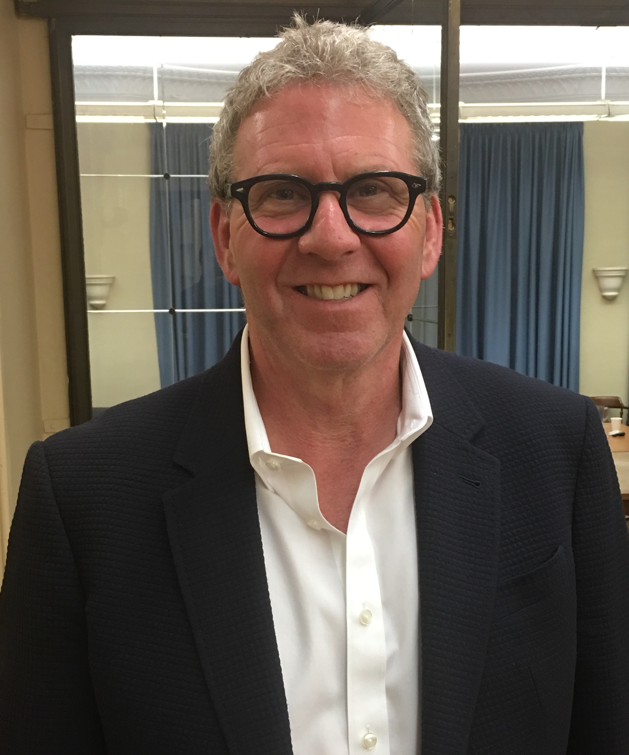 David Asper, Canadian lawyer, businessman, professor, and philanthropist.